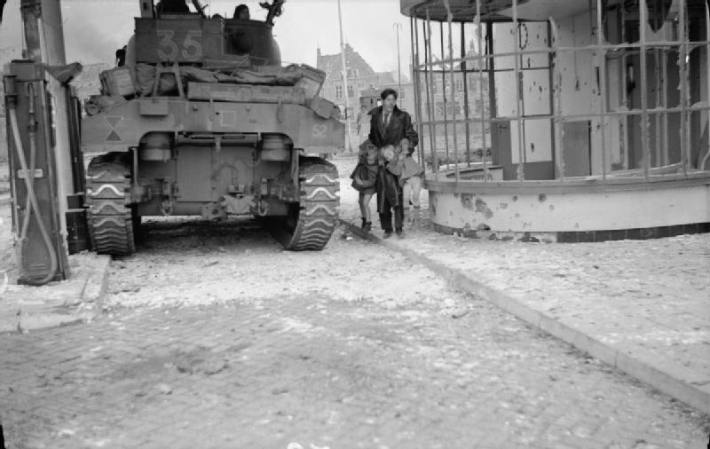 The British Army in North-west Europe 1944-45 A Dutch civilian lifts his two children away from danger near a Sherman tank during fighting in Hertogenbosch, 27 October 1944.